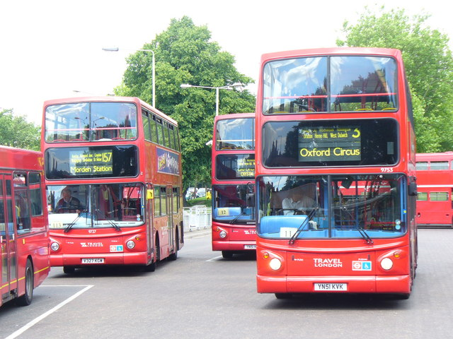 On The Buses At Crystal Palace Bus Station, sited at the south-western corner of Crystal Palace Park, Norwood.